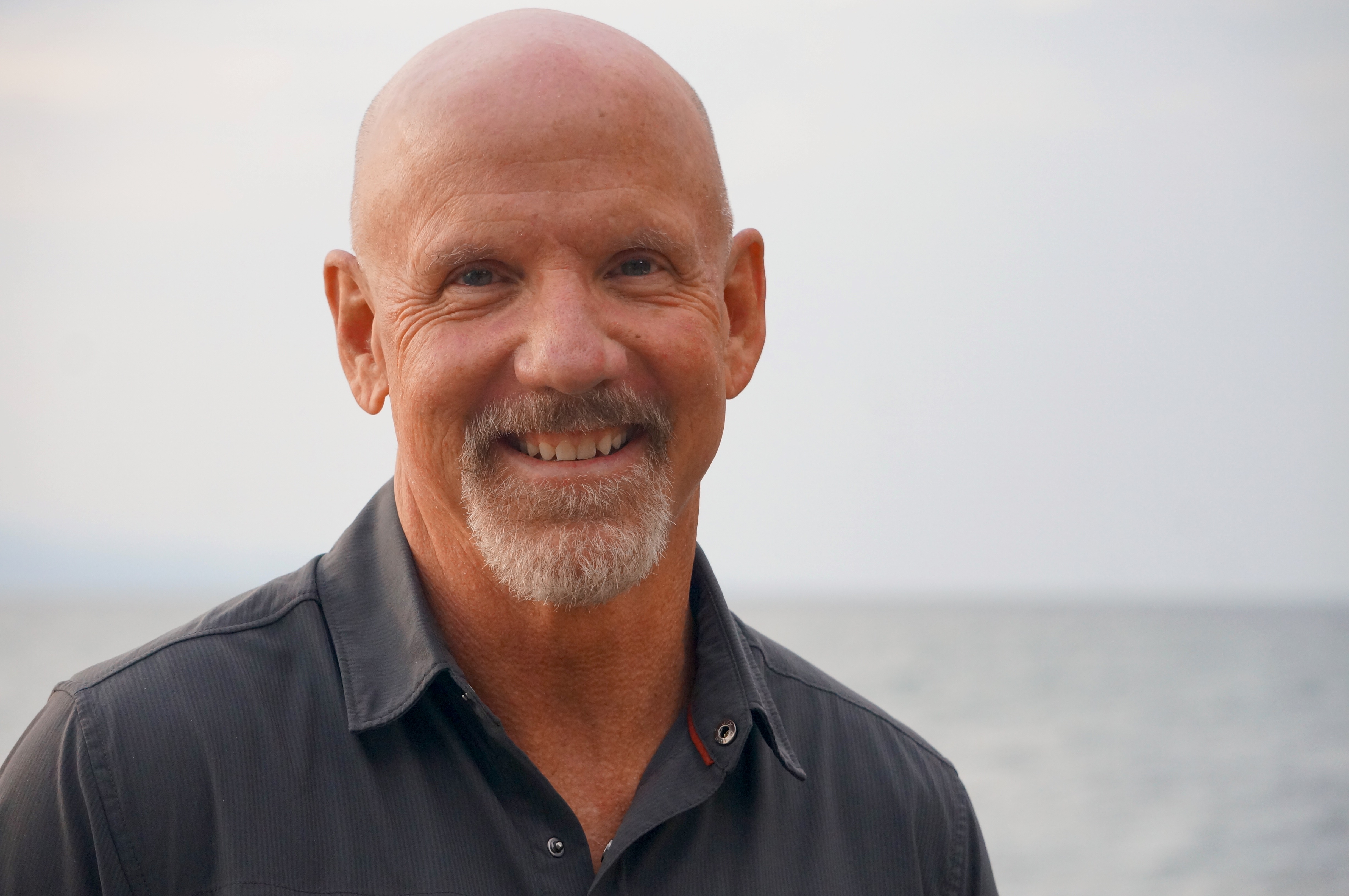 Author Mark T. Sullivan in Bozeman, MT.